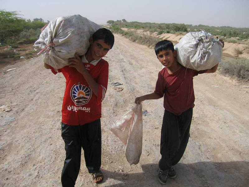 These are two Arab boys from Ahwaz, SW Iran.